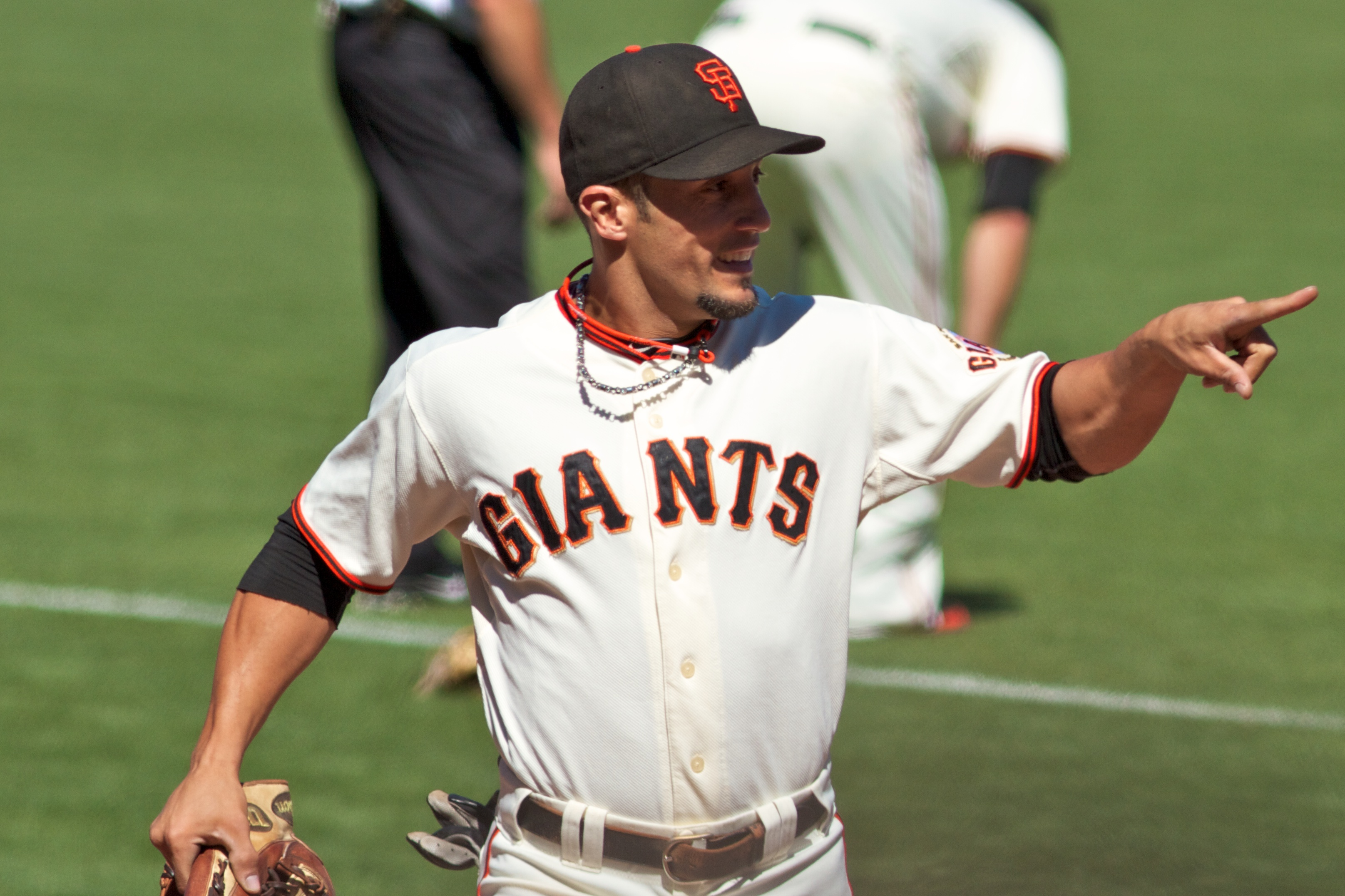 Andrés Torres with the San Francisco Giants on July 28, 2010.